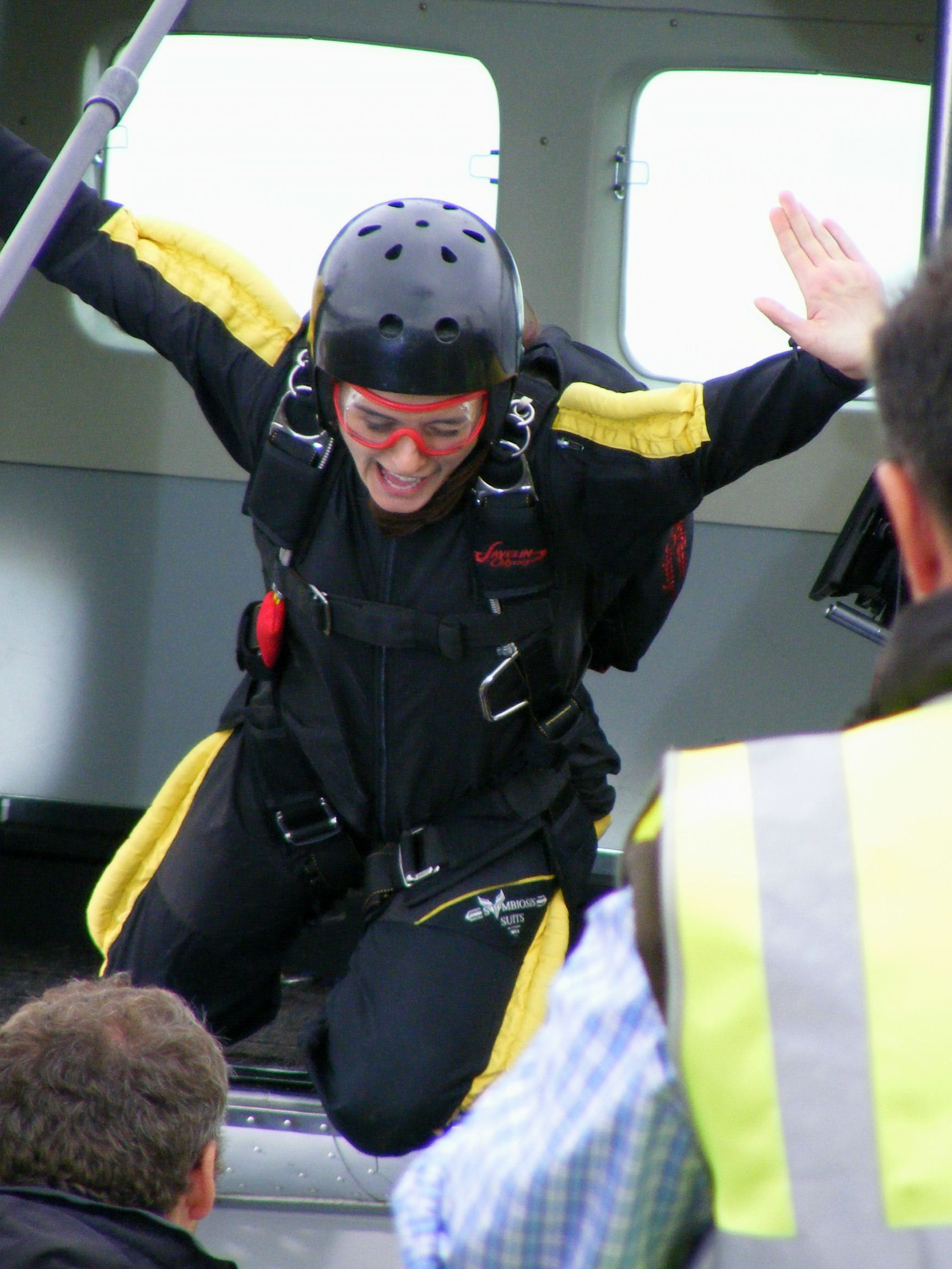 Hollyoaks actress Loui Batley during the filming a parachute stunt at Tatenhill Airfield, Staffordshire. This photo was taken by Martin Handley.